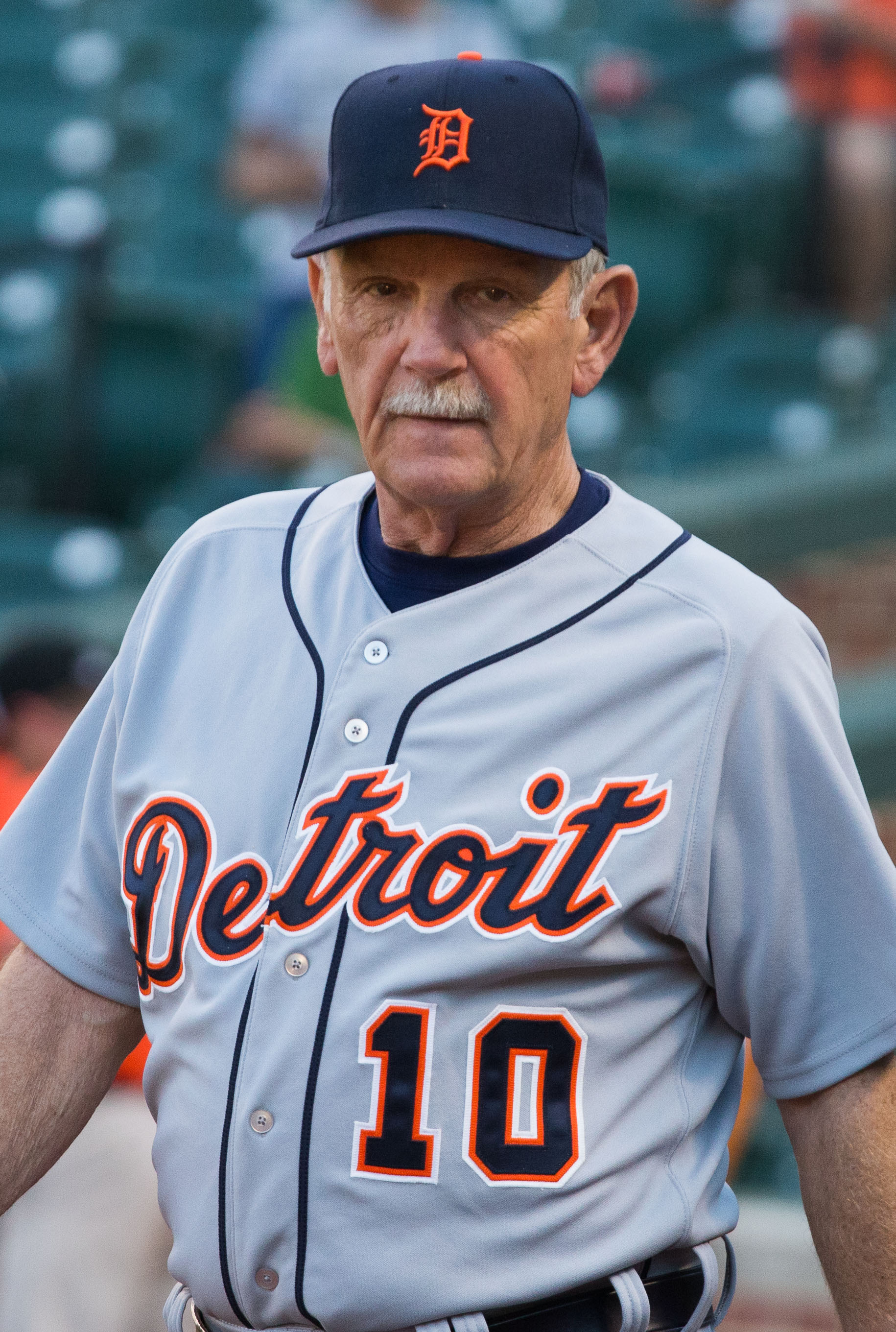 Detroit Tigers at Baltimore Orioles May 31, 2013